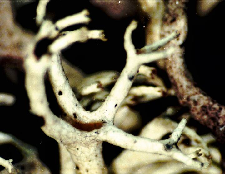 Cladonia arbuscula (Wallr.) Flot., 1839 (photograph of a herbarium specimen taken through a dissecting microscope (x21) showing an open axil) Growing on soil in open woods above the camping area at Green Ridge State Forest, Allegany County, Maryland, USA; collected and identified by Elmer G. Worthley (No. L-582, 17 Apr 1980); specimen is now in the Lichen Herbarium of the New York Botanical Garden.